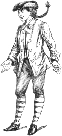 Jocrisse, a French theatrical character type.